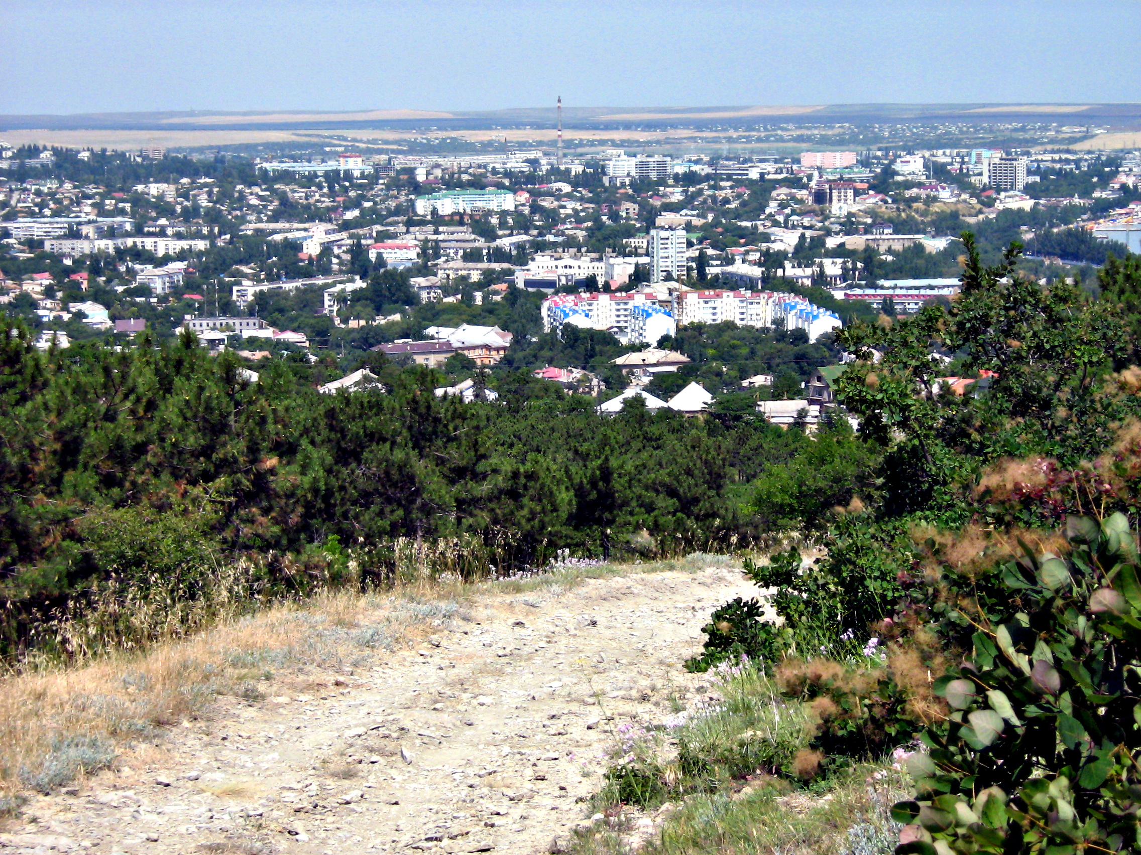 Crimean mountains. Tepe-Oba. View to Theodosia.